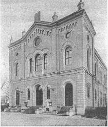 The synagogue of Linz in 1910